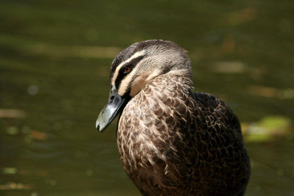 Pacific Black Duck, Anas superciliosa, breeding plumage